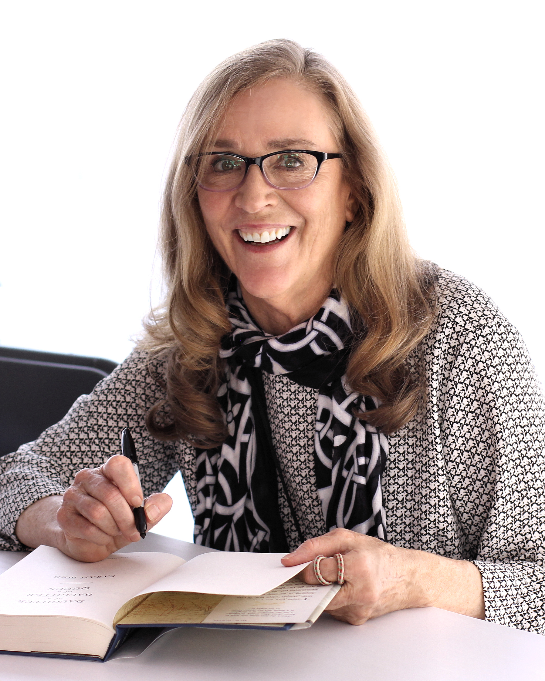 Author Sarah Bird at the 2018 Texas Book Festival in Austin, Texas, United States.